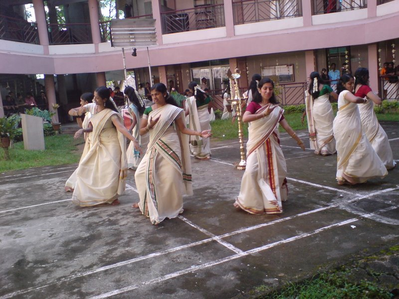 Kaikoti Kalli is a form of art in Kerala, especially during Onam seasons and Malayalam month Dhanu.